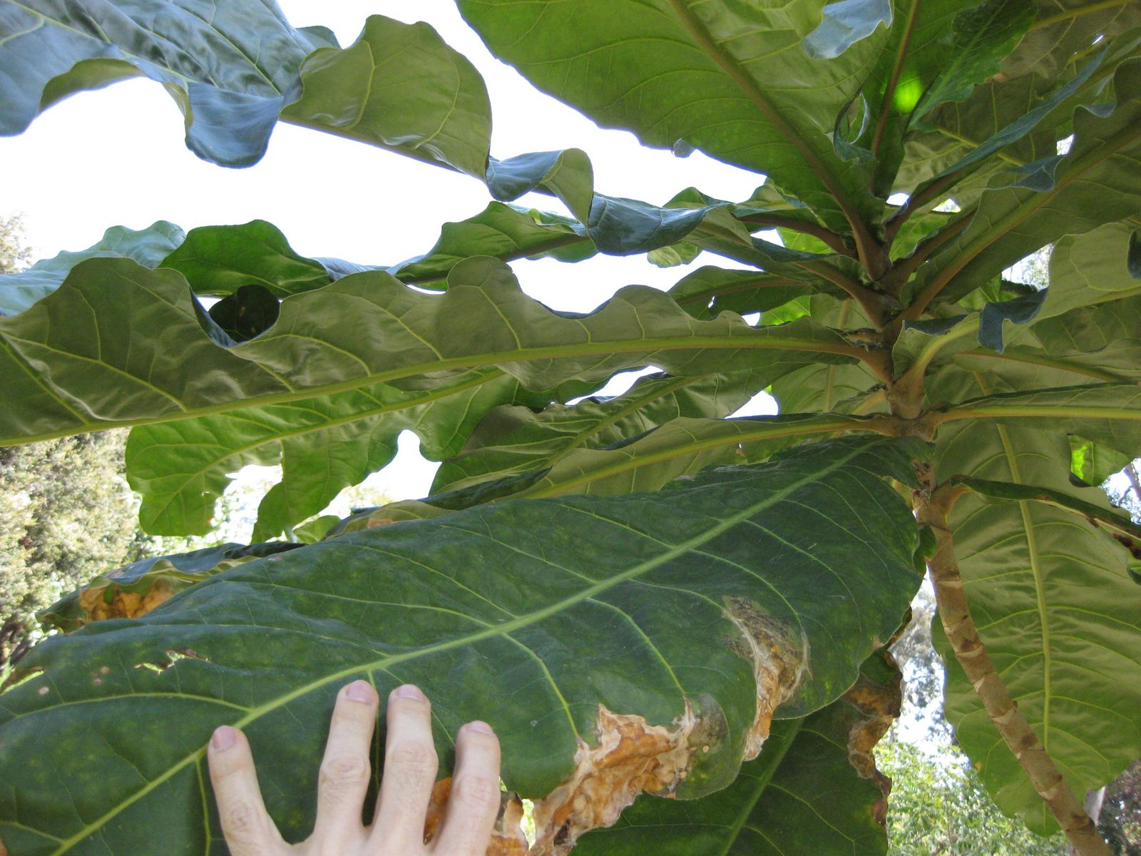 Photographed at Huntington Gardens (Los Angeles) in March